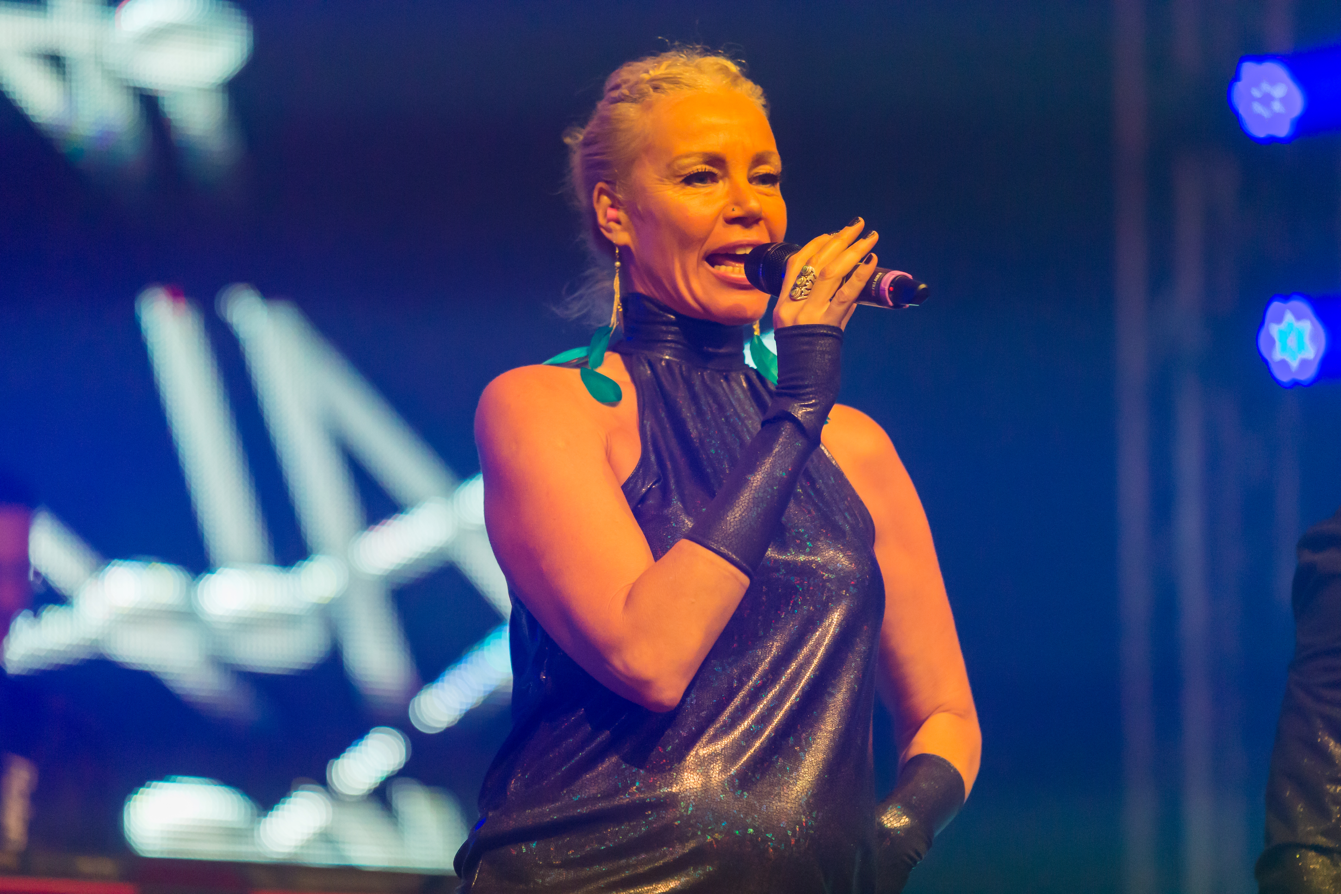 sunshine live "Die 90er - Live On Stage" Maimarkthalle Mannheim DJ Falk, Magic Affair, Captain Hollywood Project, Haddaway, Masterboy, 2 Unlimited, Marusha, Charly Lownoise